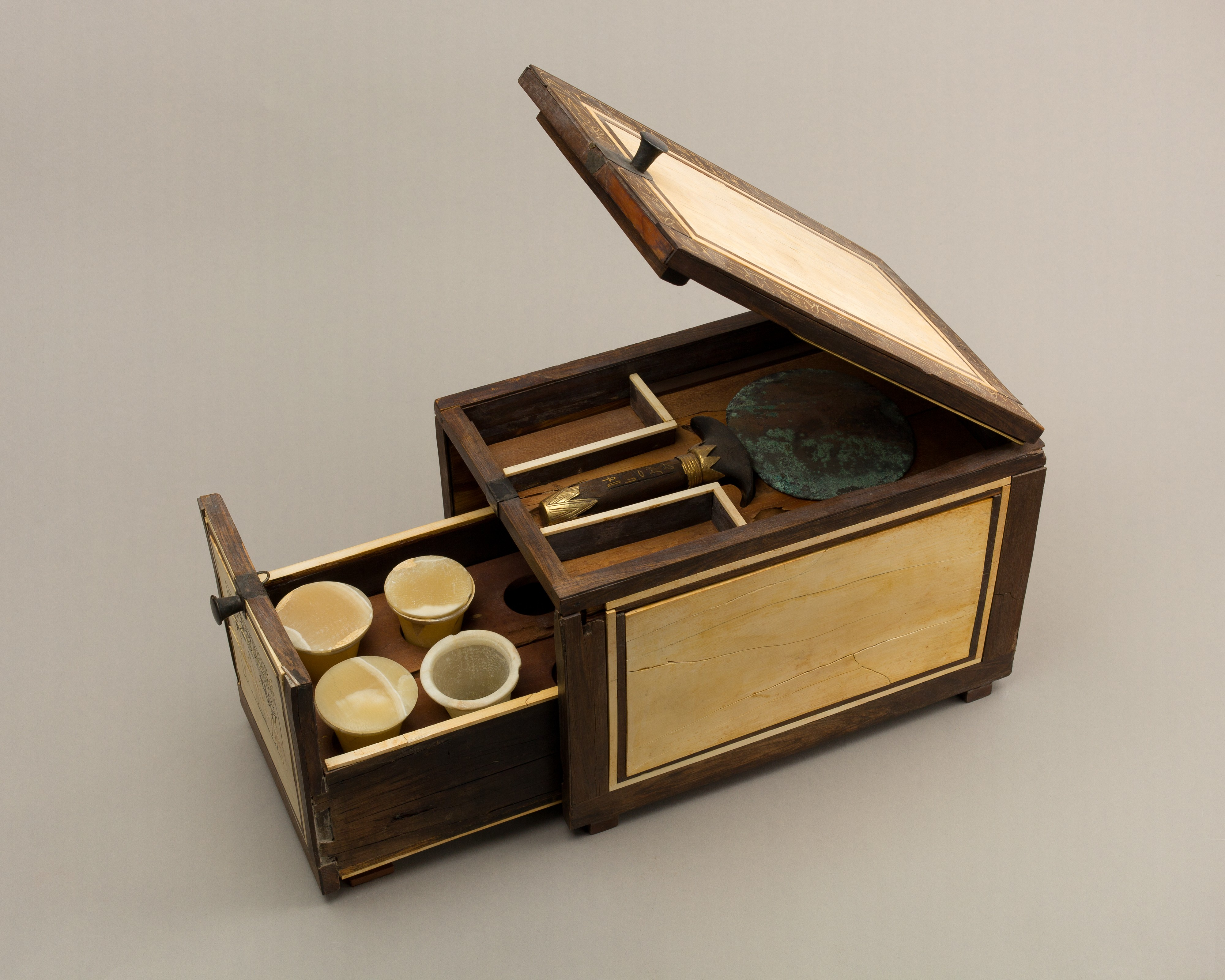 Cosmetic box, Kemeni